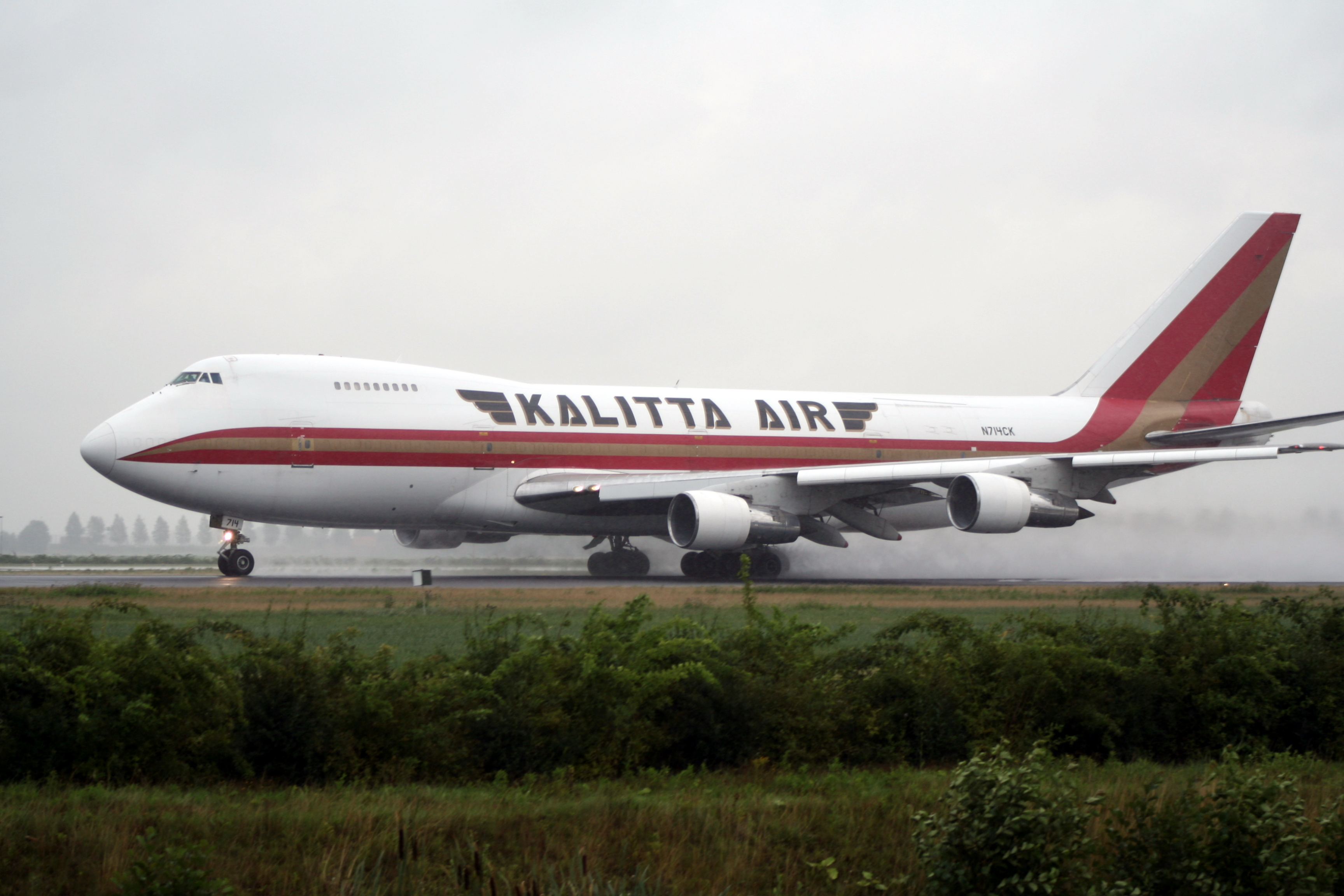 Kalitta Air (N714CK) Taking off from wet Schiphol AirportThis plane has crashed in Colombia at July 7, 2008 (wikinews)